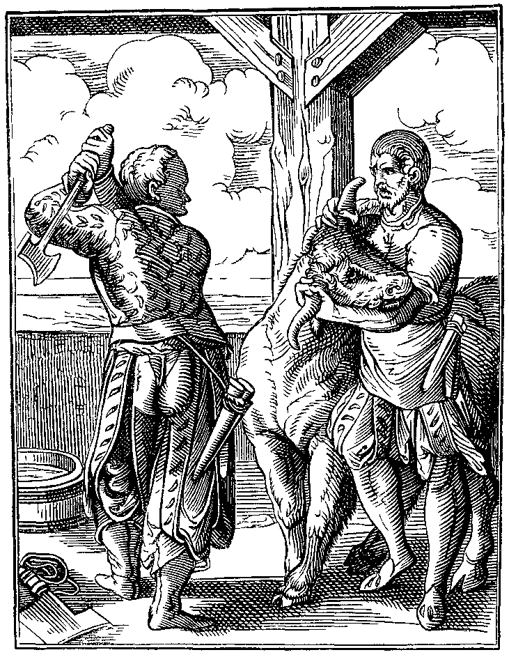 The Butcher and his Servant, drawn and engraved by J. Amman Das Ständebuch (The Book of Trades; Sixteenth Century).